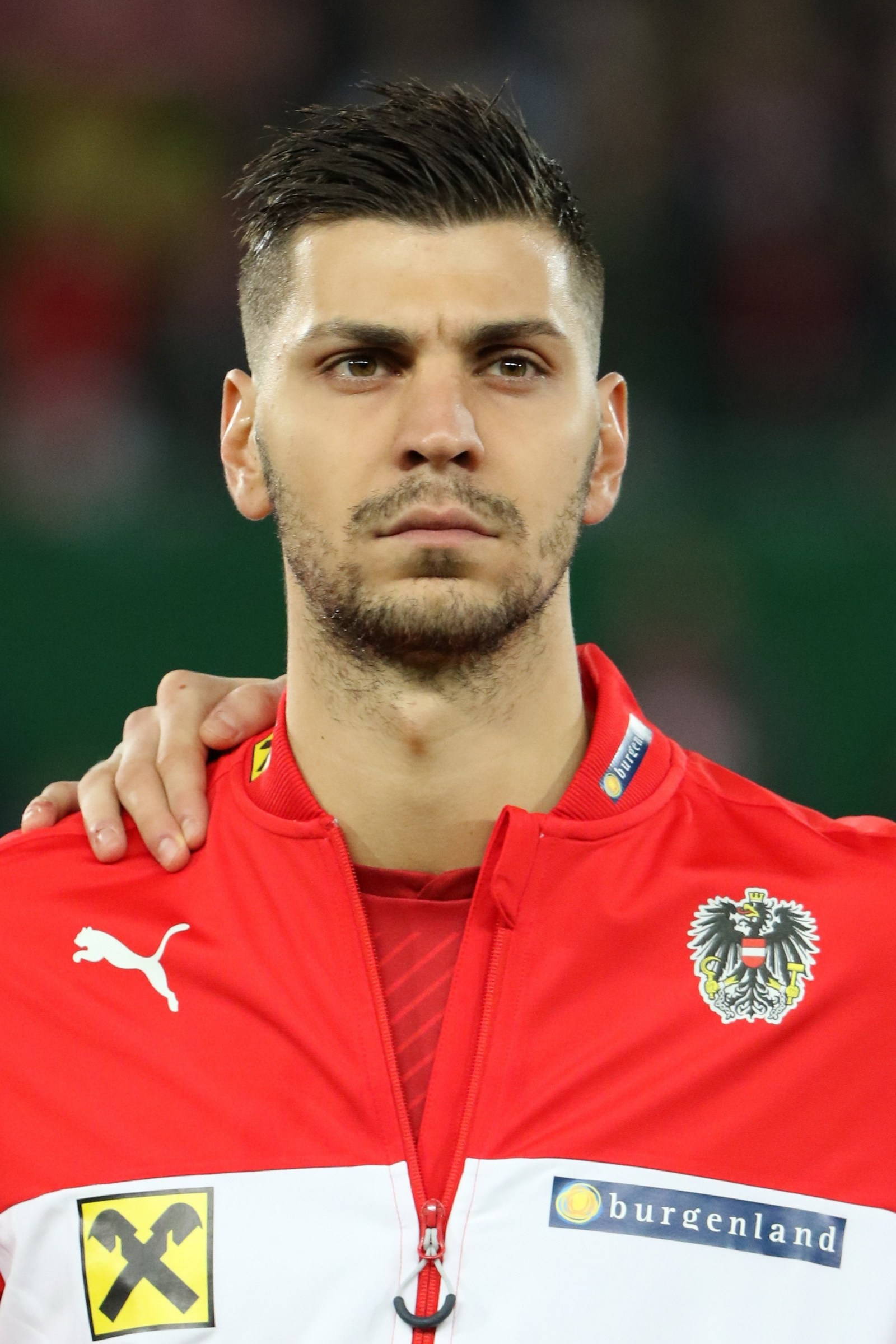 Friendly match – Austria (red shirts) vs. Turkey (blue shirts) 1–2 (1–1) on 2016-03-29 in Ernst-Happel-Stadion, Vienna – The photo shows Aleksandar Dragović (Dynamo Kiew).